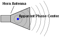 Picture showing horn antenna apparent phase center.